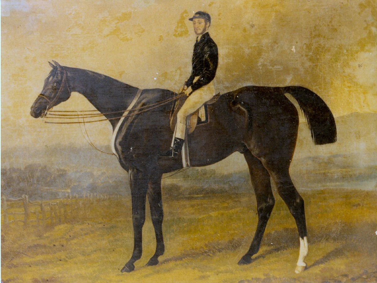 This painting, by an unknown hand (but possibly after Henry Barraud who painted Half Caste in 1859), was last known (1984) to be held by a descendant of Chris Green, the jockey, and was painted after he won the wikipedia:1859 Grand National on Half Caste.